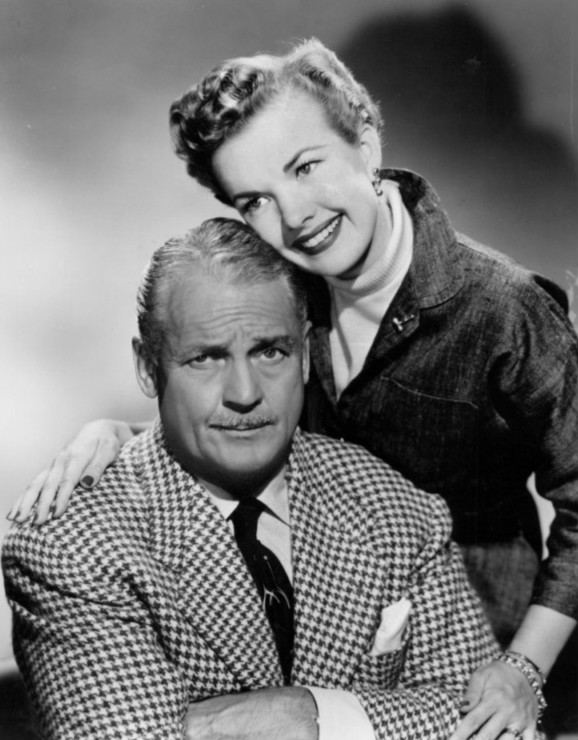 Photo of Charles Farrell and Gale Storm from the television program My Little Margie. Farrell played Vern Albright, father of Margie Albright (played by Storm).